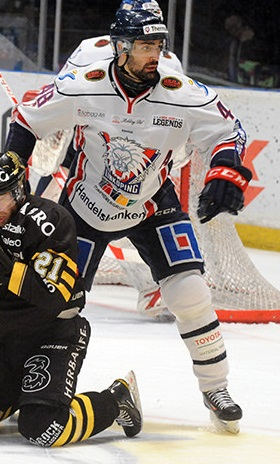 Daniel Rahimi during a SHL game against AIK.